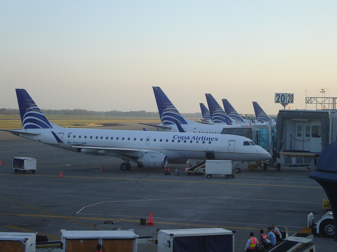 The Hub of the Americas at Tocumen International Airport in Panama City, Panama